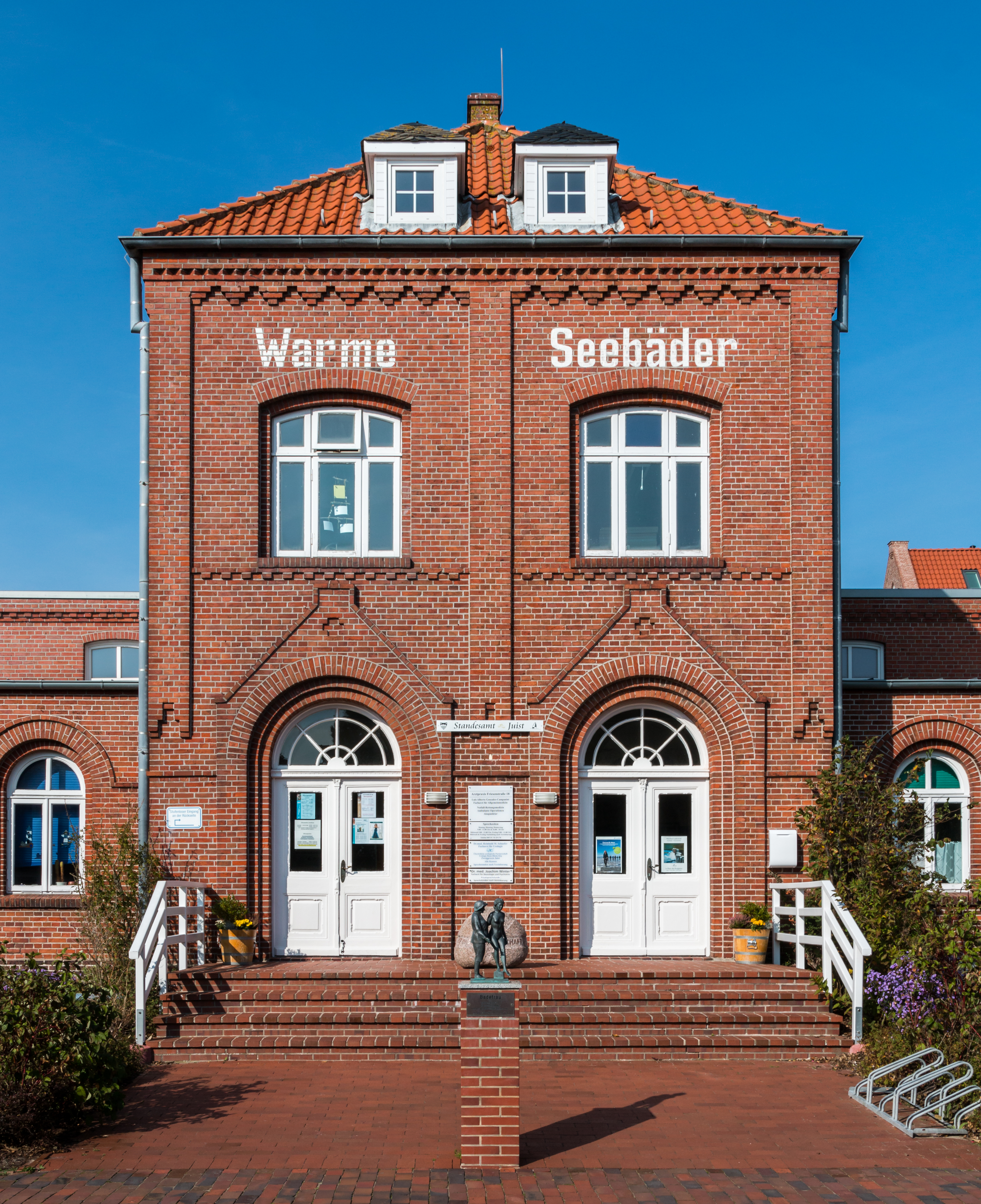 Old Warmbad (Kurverwaltung), Juist, Lower Saxony, Germany